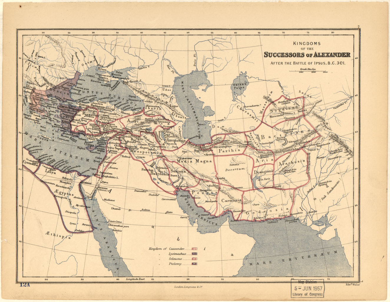 Kingdoms of the Successors of Alexander: After the Battle of Ipsus, B.C. 301